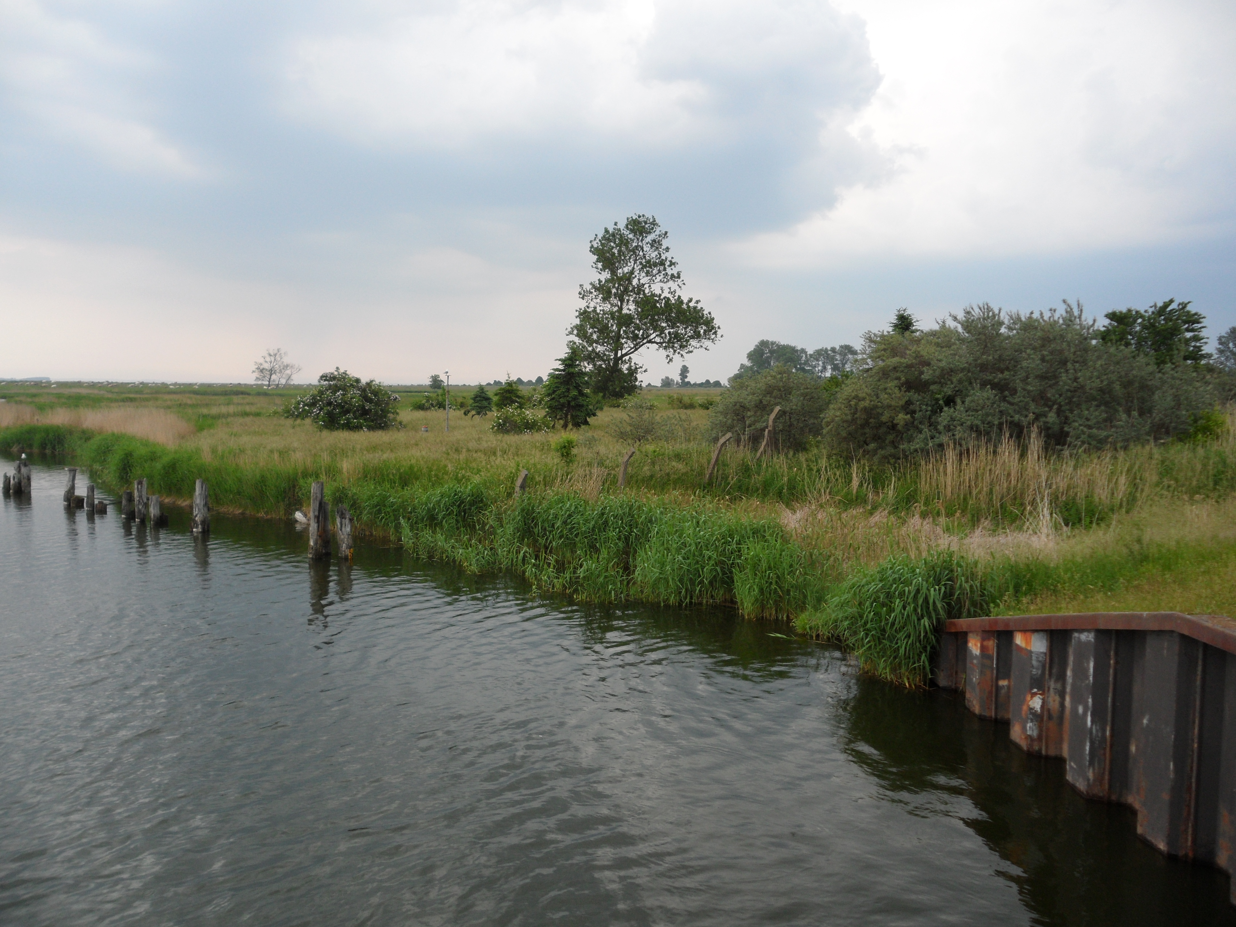 Part of island Koos from the "Beek"